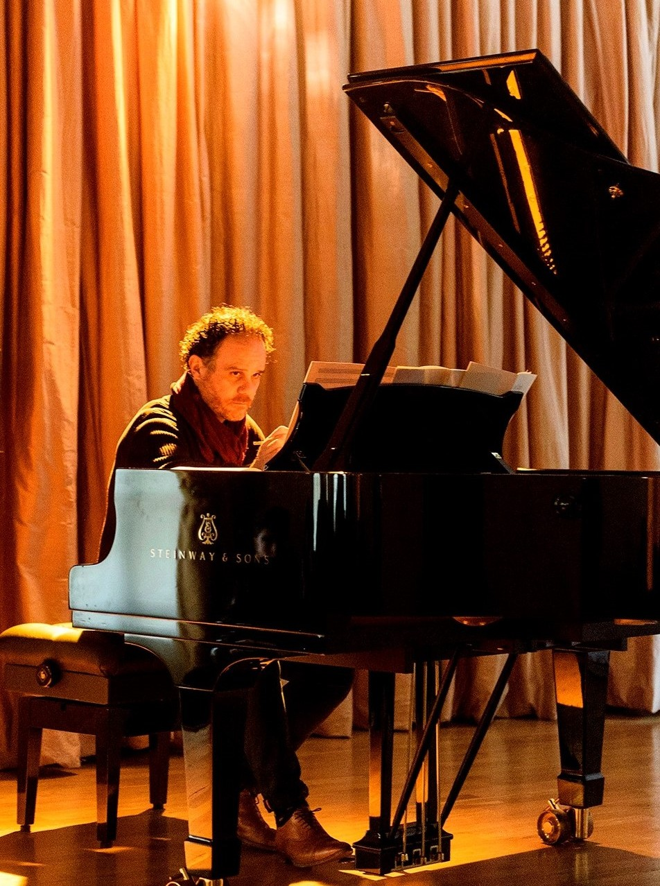 José Zárate